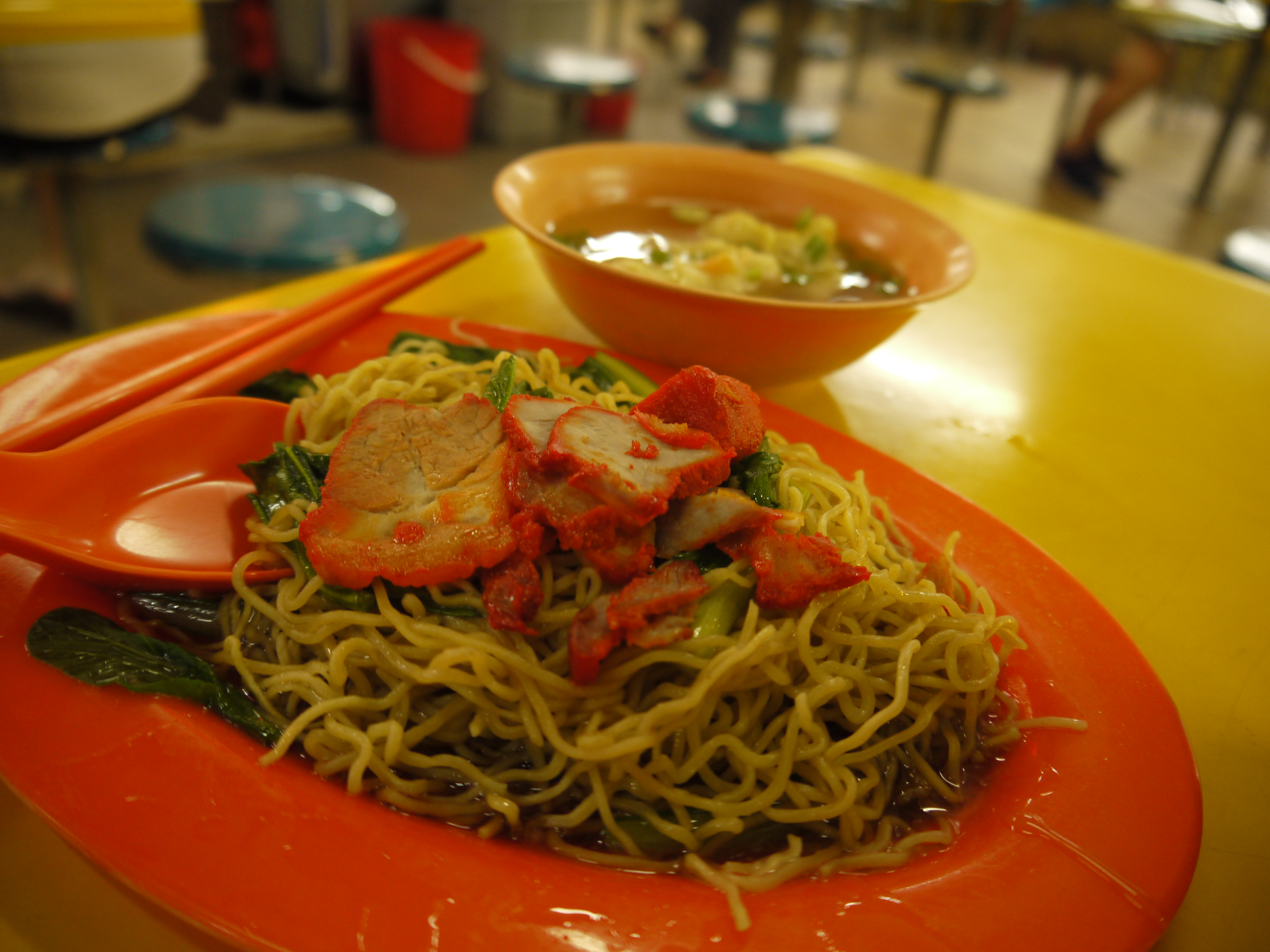 Char Siew Wantan Noodle in Malaysia